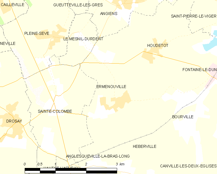 Map of French municipality Ermenouville